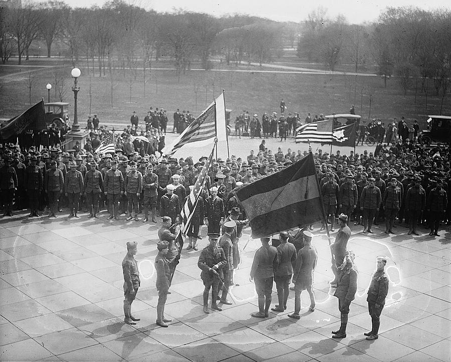 Caption from caption list: A delegation of 500 Armenian veterans of the World War, in service uniforms today paraded through Washington headed by the United States States [sic] Marine Band. At the State Dept they were received by Secty. Colby to to [sic] whom they presented a petetion [sic] asking recognition of the new Republic of of [sic] Armenia. The photograph showing the Washington monument in the background, was made at the State Dept.